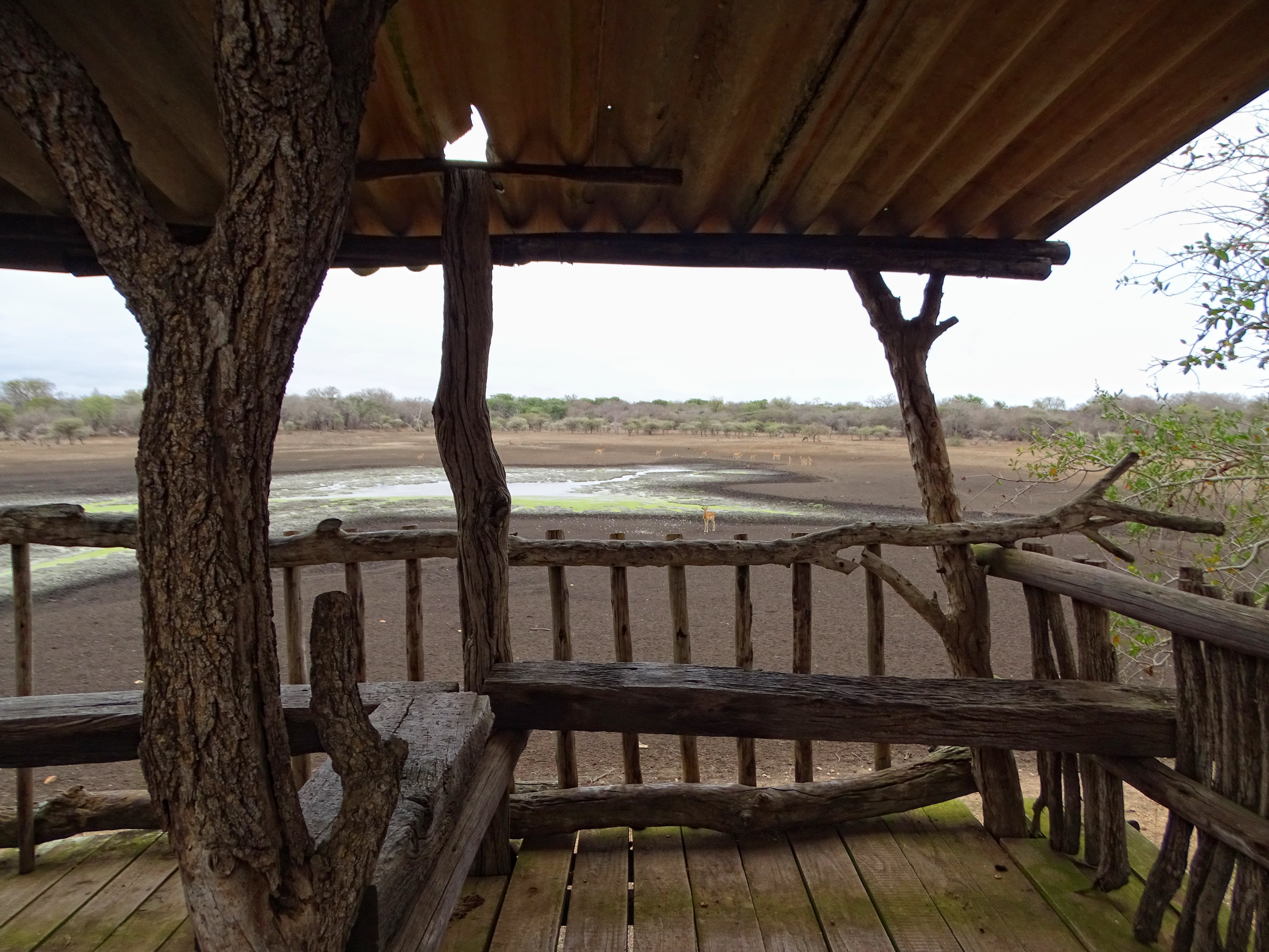 Basic facilities at a hide overlooking the waterhole known as Hippo Pool, located in the southern part of Hlane Royal National Park, Swaziland.